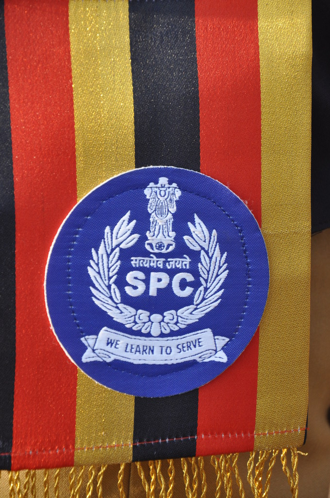 Student police cadet logo